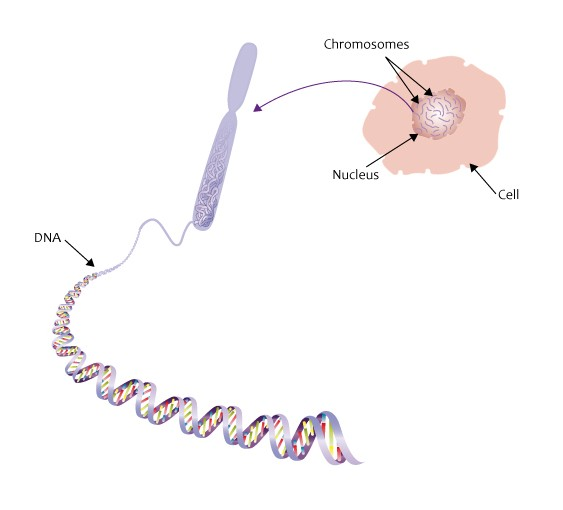 This image was created by the NHS National Genetics and Genomics Education Centre. For further information and resources please visit our website